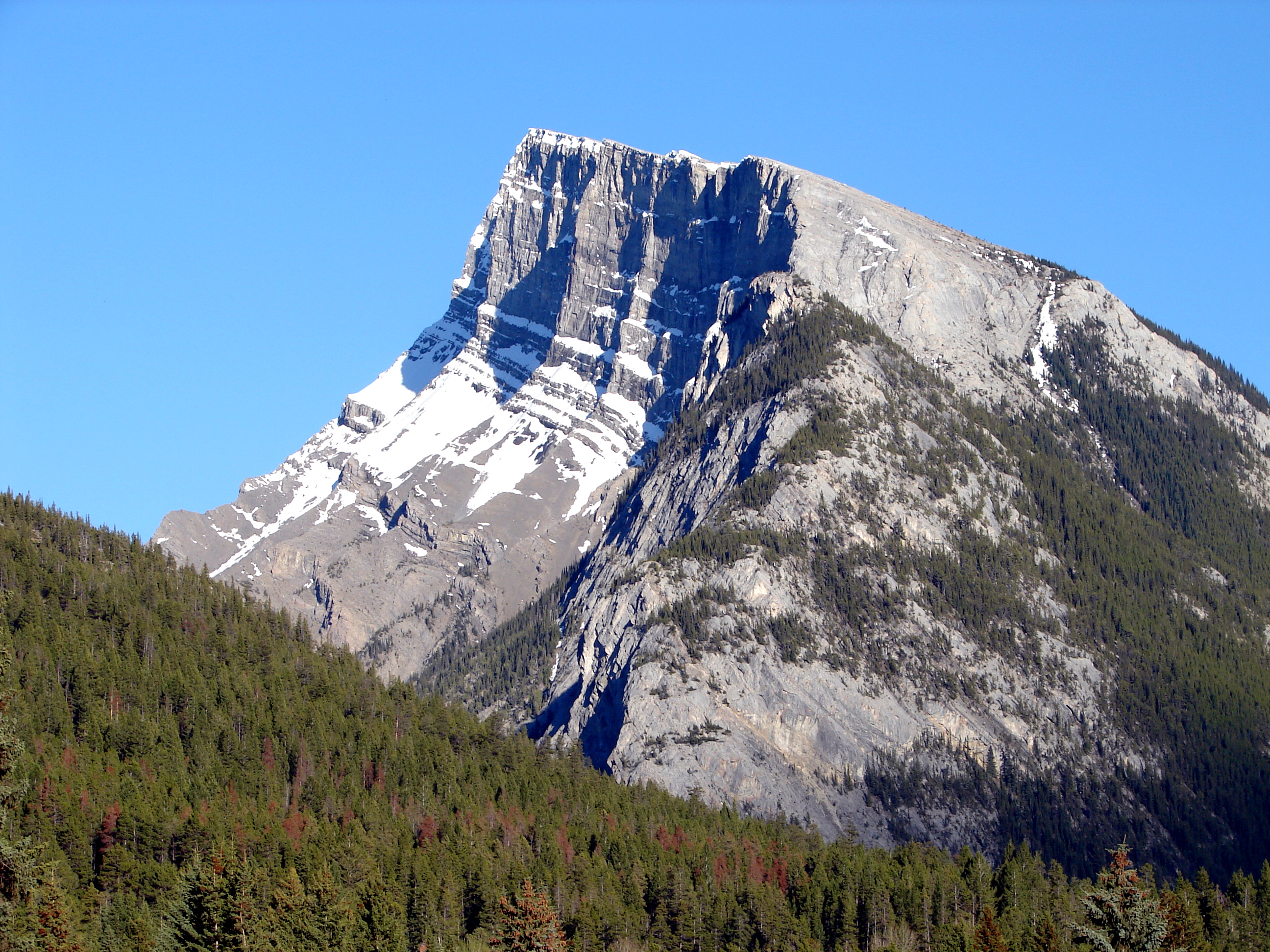 Mount Rundle - it looks like a wave!!